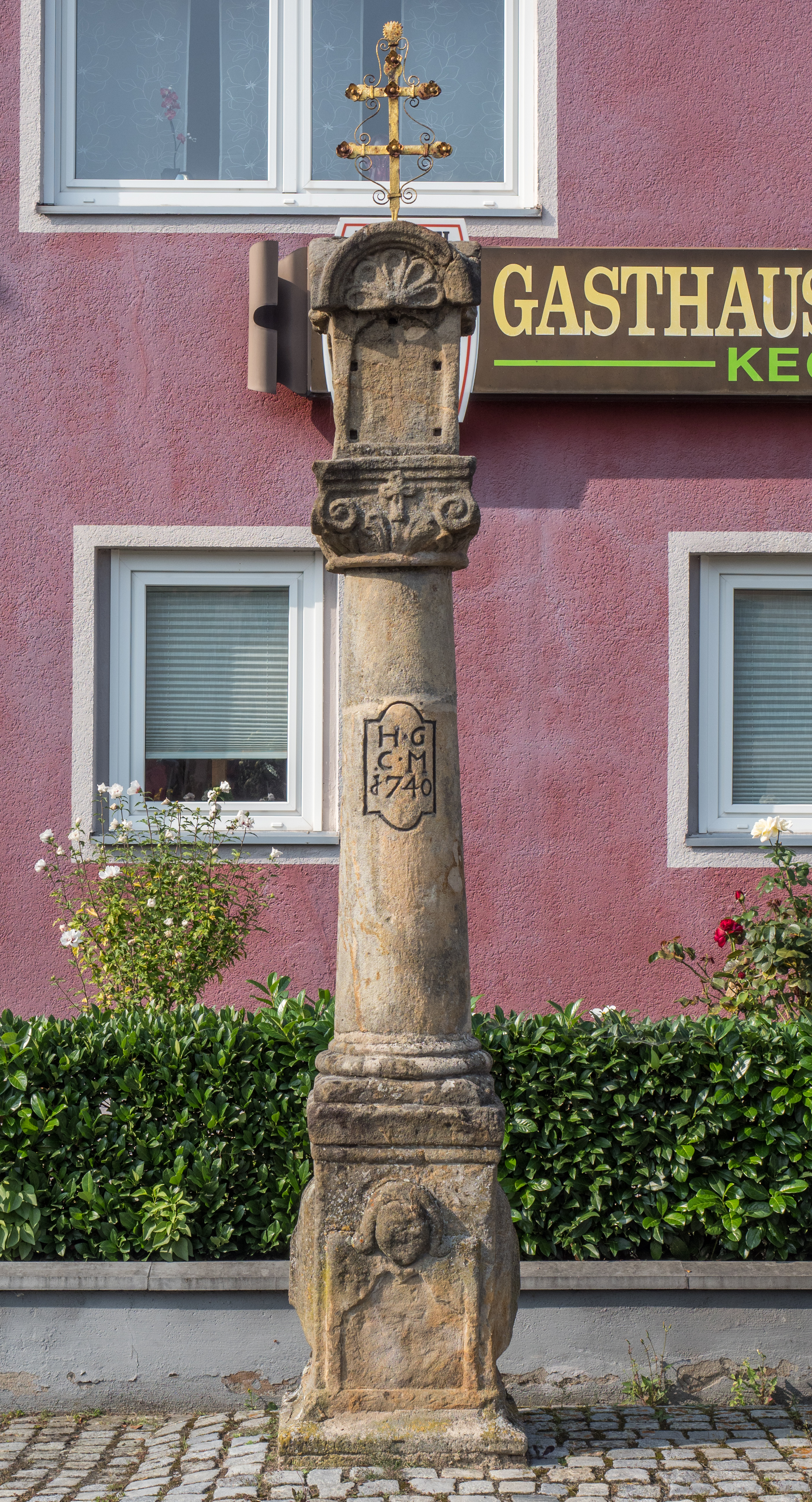 Sandstone column in Köttmannsdorf